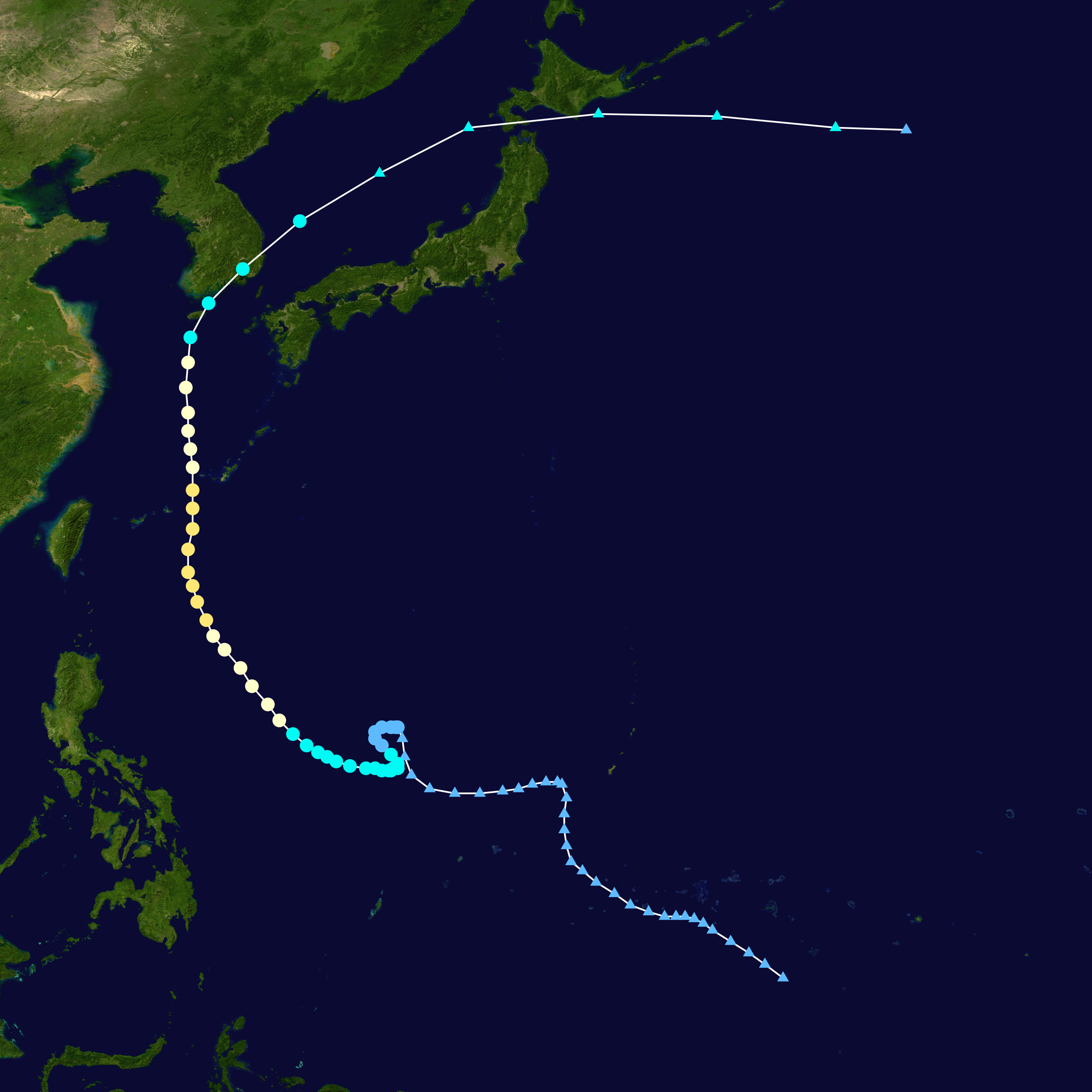 Typhoon Tina 1997 track. Uses the color scheme from the Saffir-Simpson Hurricane Scale.